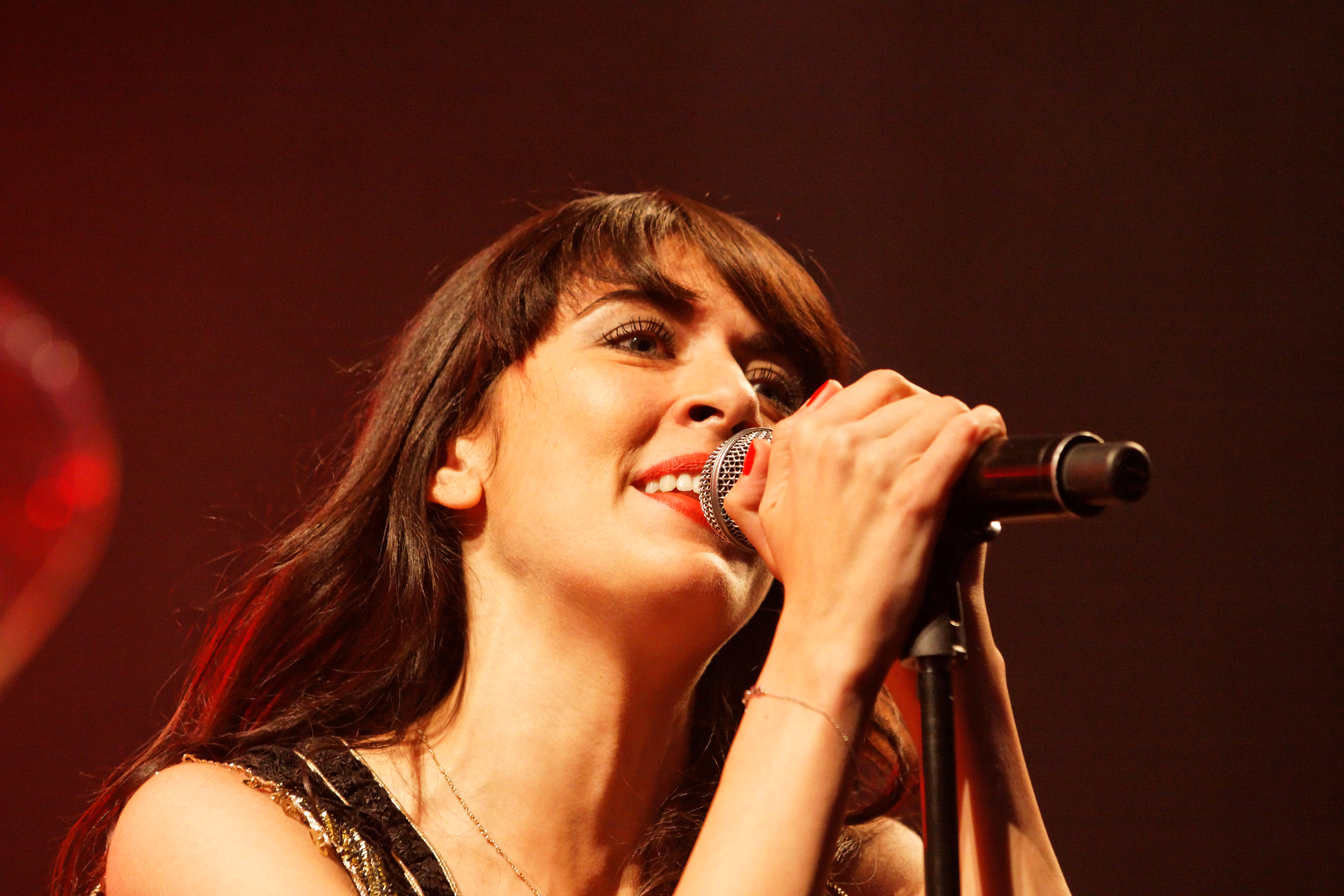 Nolwenn Leroy at a concert at 22. Juli 2011 at the Festival de Cornouaille